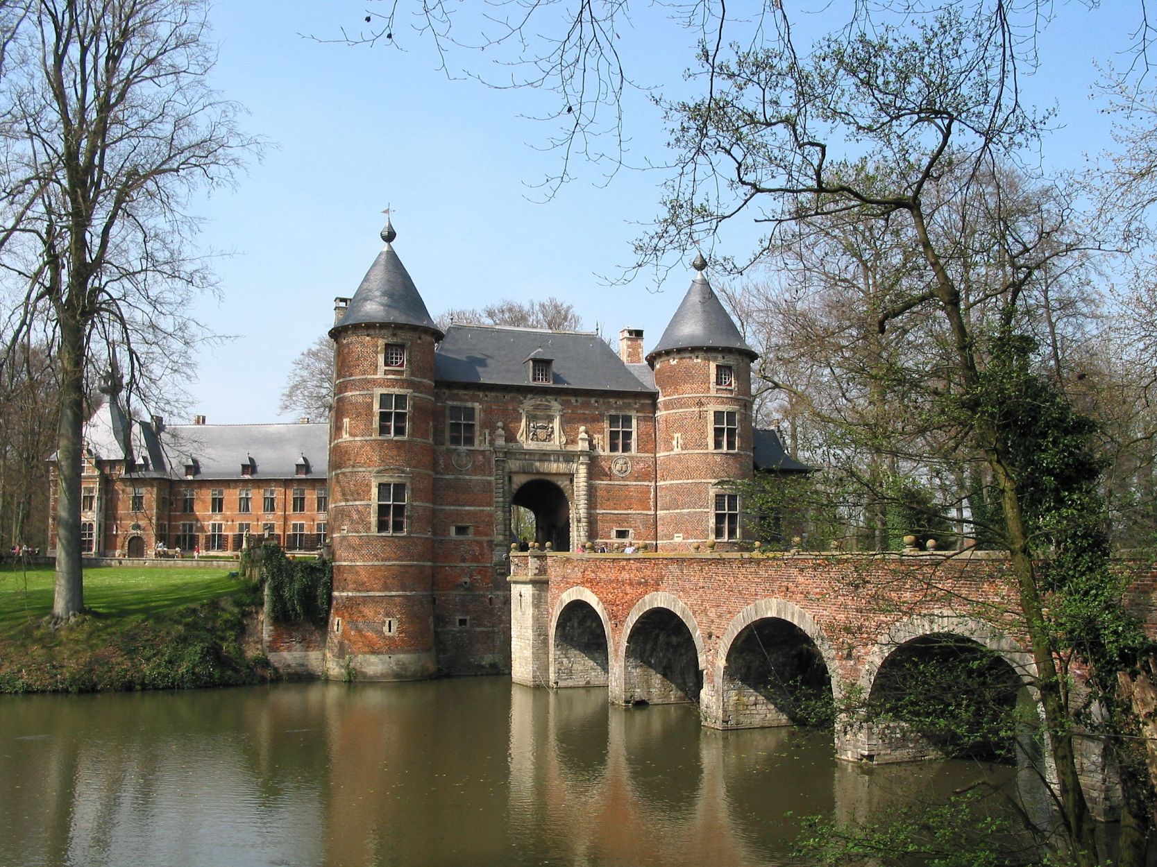 Groot-Bijgaarden (Belgium), the castle (XIV/XVIIth centuries).